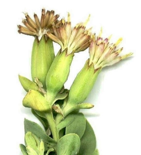 Flowers of a Lopholaena coriifolia shrub, collected from rocky ridge, Pretoria, South Africa